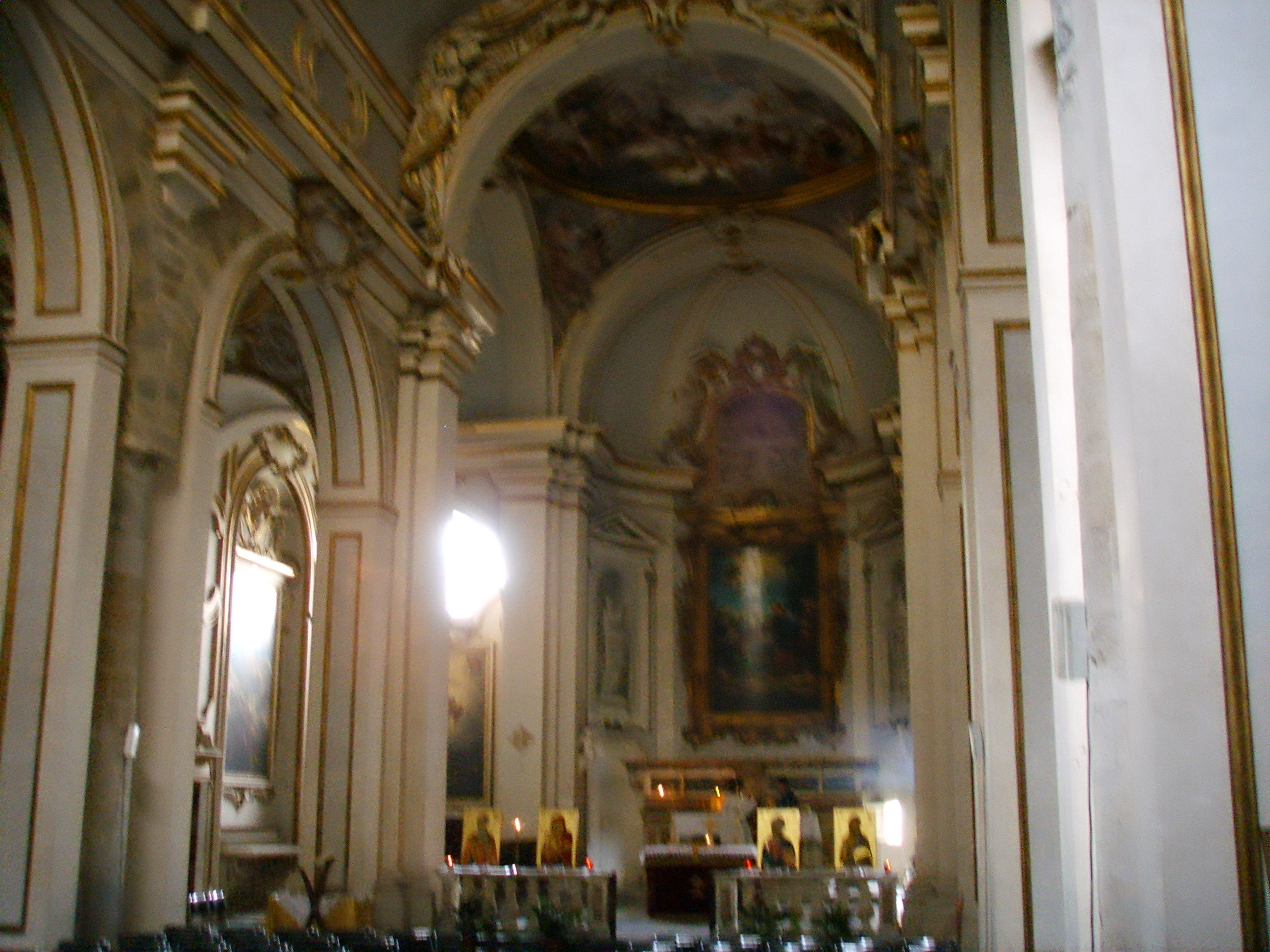 San Jacopo Sopr'Arno church (Florence, Italy). Inside.